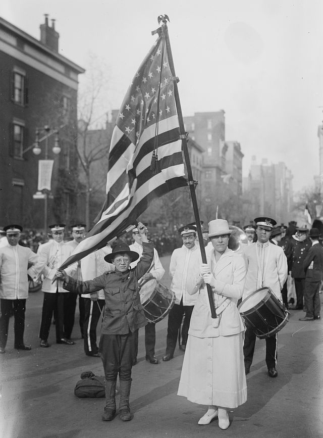 Bain News Service,, publisher. Mrs. Louis C. Tiffany [between ca. 1915 and ca. 1920] 1 negative : glass ; 5 x 7 in. or smaller. Notes: Title from unverified data provided by the Bain News Service on the negatives or caption cards. Forms part of: George Grantham Bain Collection (Library of Congress). Format: Glass negatives. Repository: Library of Congress, Prints and Photographs Division, Washington, D.C. 20540 USA, General information about the Bain Collection is available at Higher resolution image is available (Persistent URL): Call Number: LC-B2- 4381-11